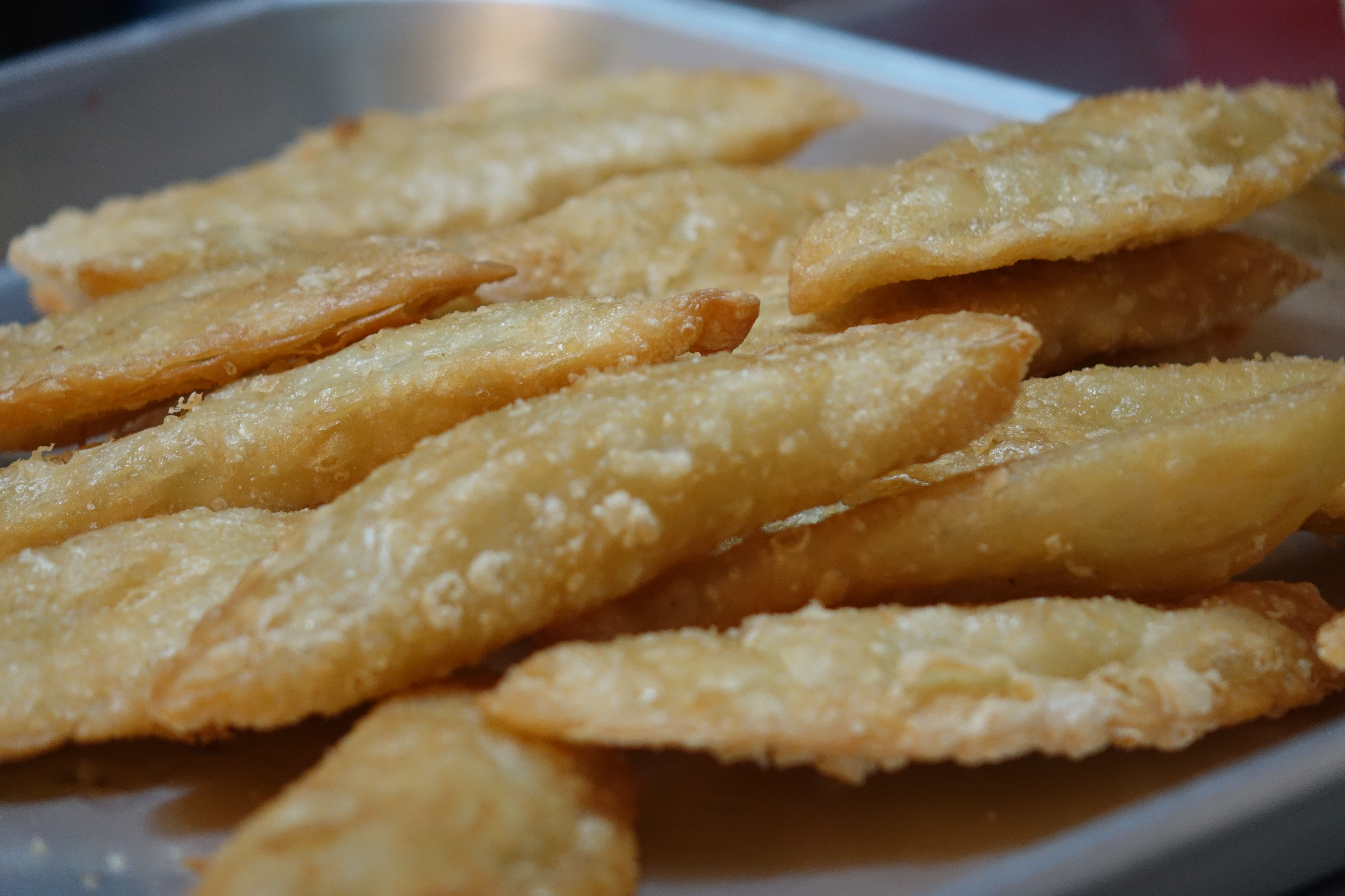 Taken by Choe Kwangmo with Sony DSC-RX10